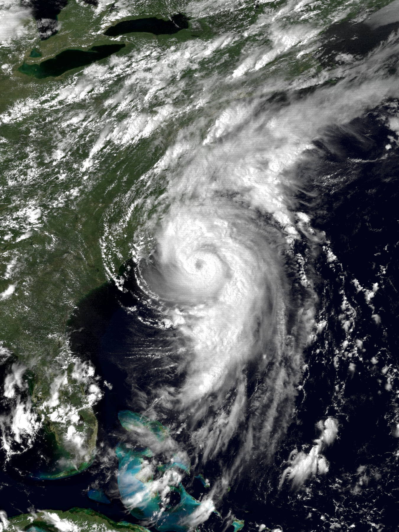 Hurricane Bob on August 18, 1991